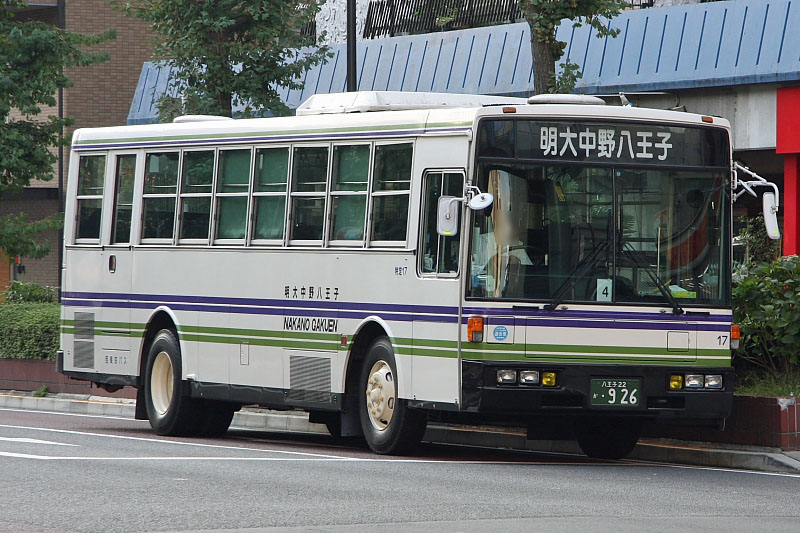 Nishi Tokyo Bus's school bus (Car No.特定17 / Nissan Diesel UA KC-UA460LSN / FHI 7E body) in Hachioji, Tokyo, Japan.